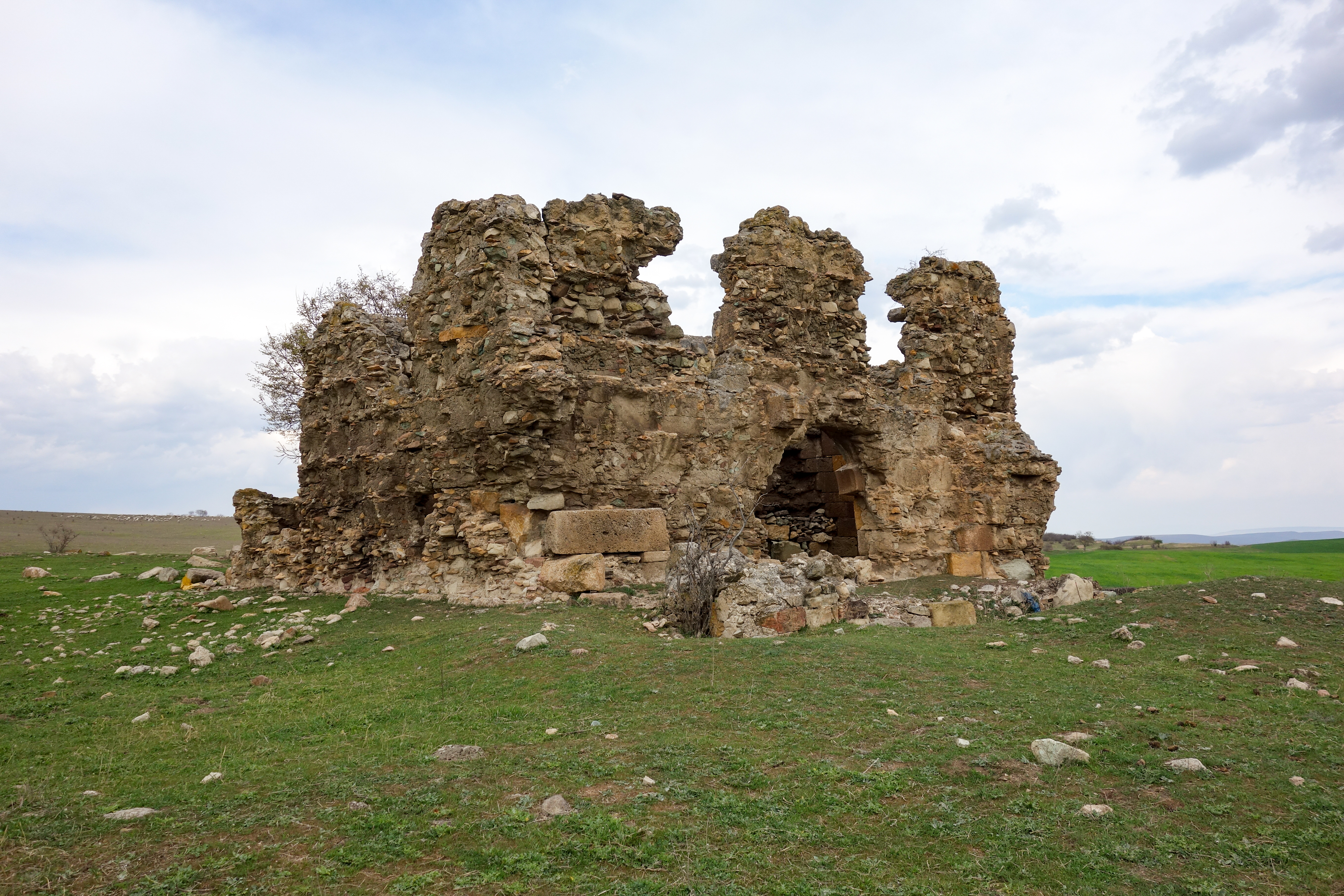 Vanati Church (V-VI cc.), Kvemo Kartli, Georgia